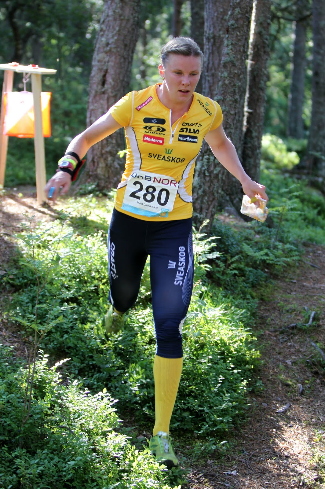 Helena Jansson at World Orienteering Championships 2010 in Trondheim, Norway